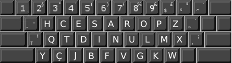 A HCESAR keyboard layout. Based on Image:Qwerty2.png.